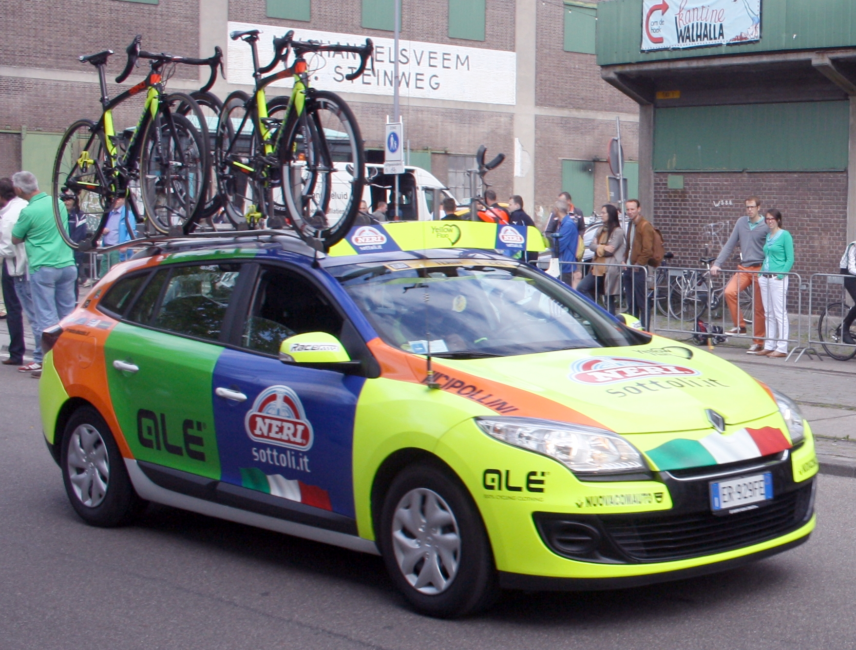 Neri Sottoli car at the start of the World Ports Classic 2014 in Rotterdam